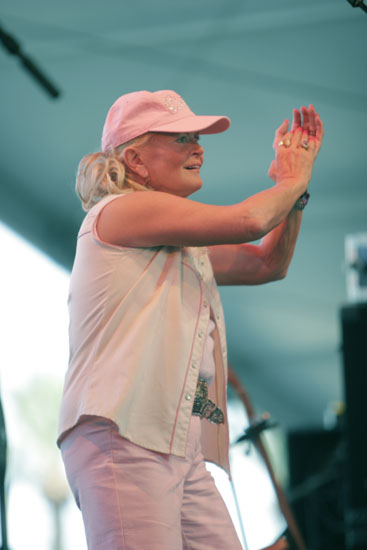 Lynn Anderson - Live in Concert (photo by Scott Dudelson)